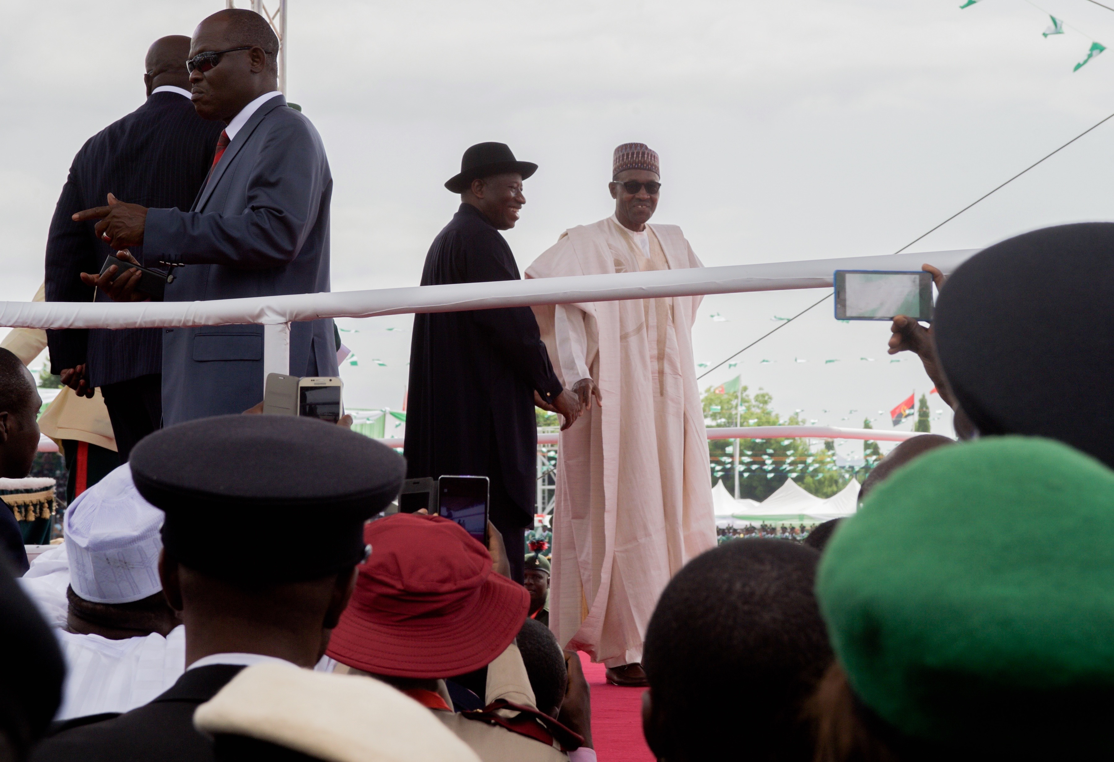 Former Nigerian President Goodluck Jonathan, in hat, stands with newly sworn-in President Muhammadu Buhari amid his inauguration ceremony - attended by U.S. Secretary of State John Kerry and other members of a delegation representing President Obama - at Eagle Square in Abuja, Nigeria, on May 29, 2015. [State Department photo/ Public Domain]